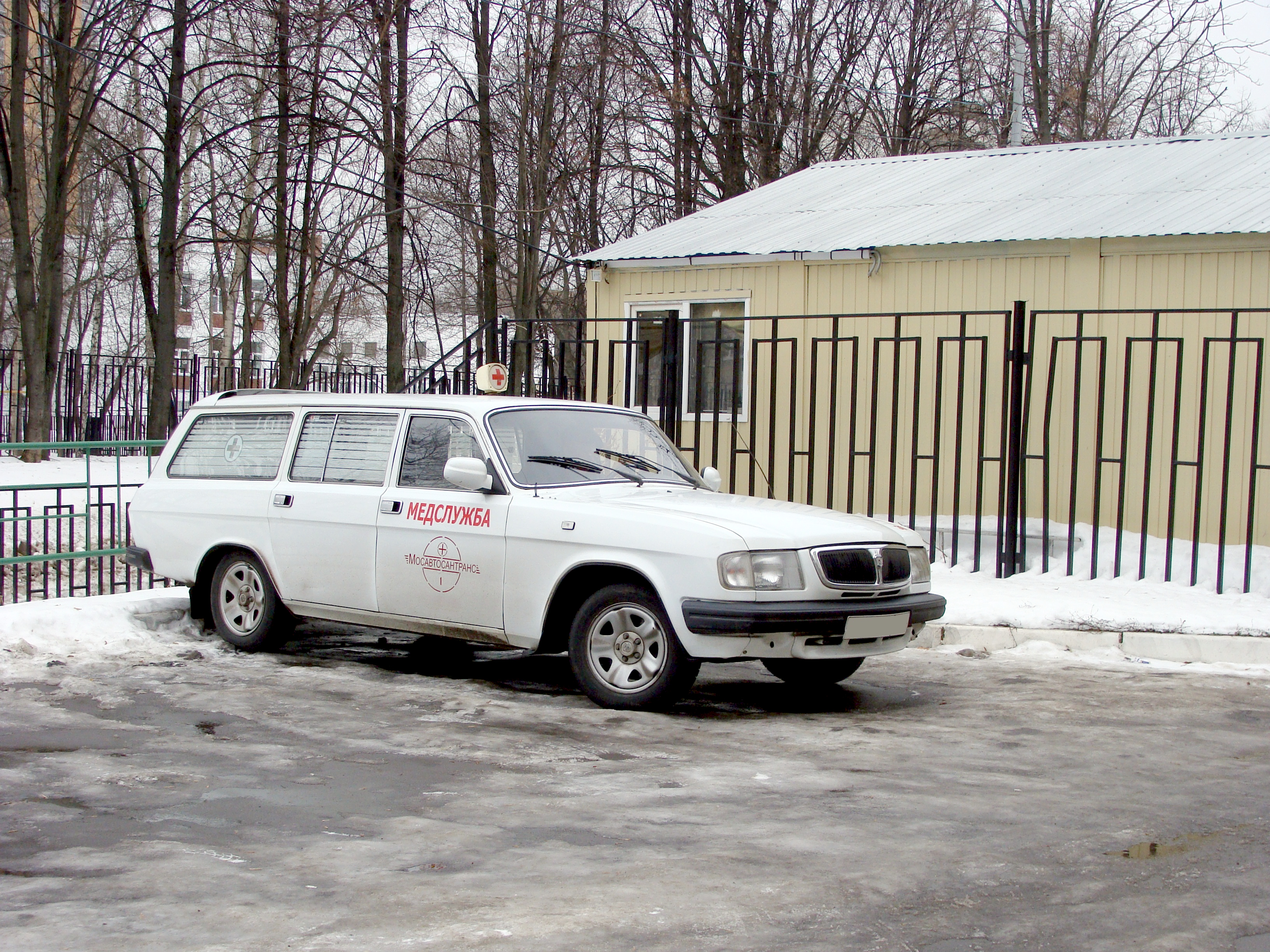 GAZ-310231 - mediacal purposes auto.